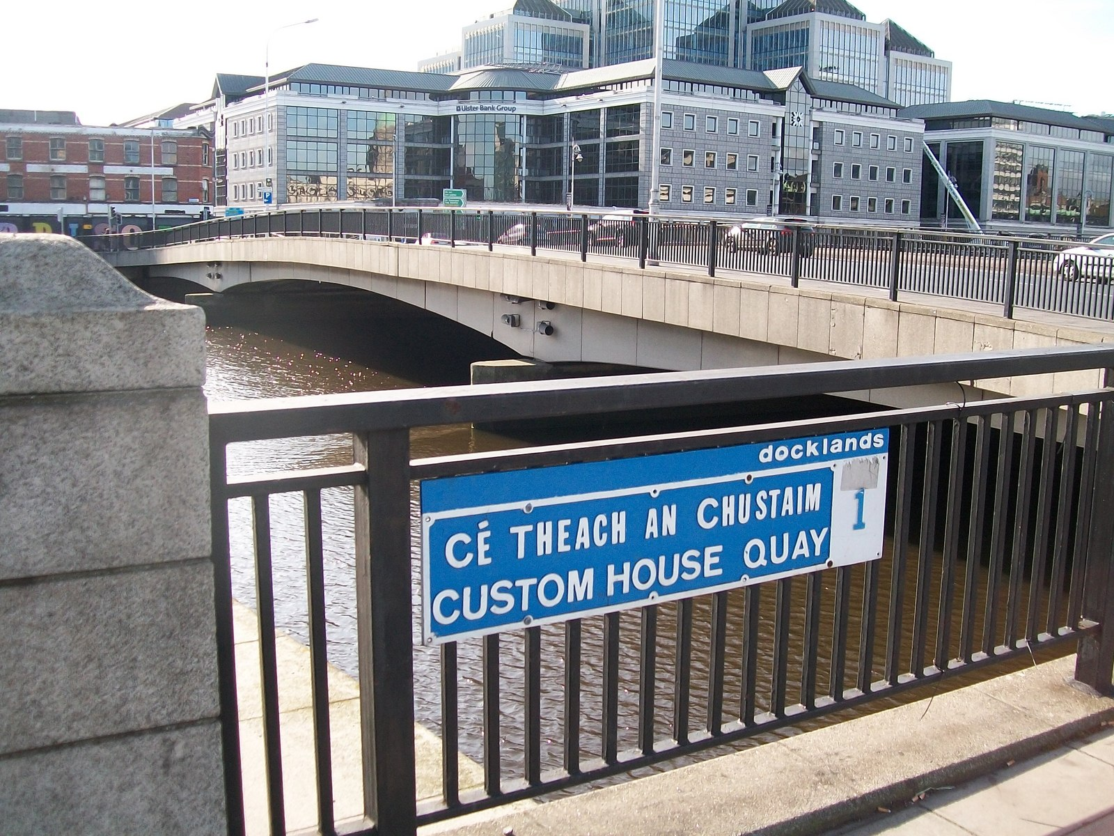 The Talbot Memorial Bridge from Custom House Quay The building in the background, on George's Quay, is the Irish HQ of Ulster Bank, part of the Royal Bank of Scotland Group.